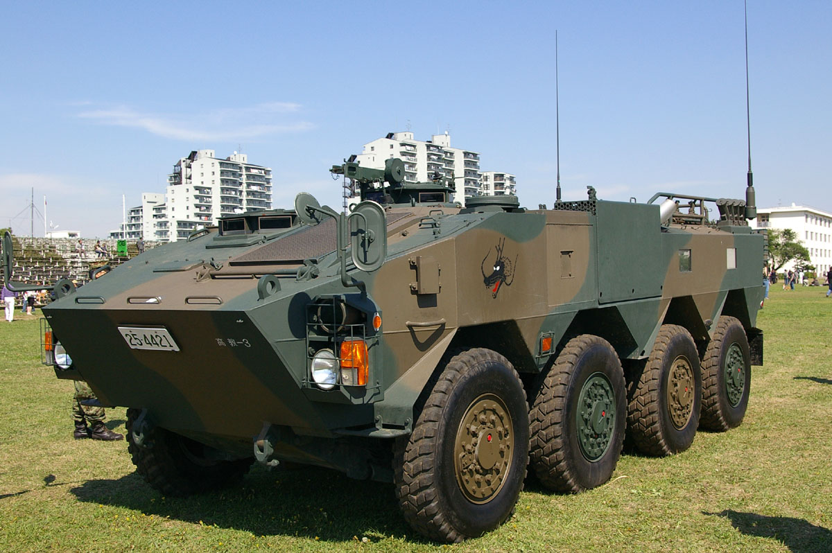 Taken by Los688,29-Apr-2007,JGSDF Camp-Shimoshizu.JGSDF Type96 APC,Air Defence Artillery School unit.PD-self. ja:2007年4月29日、投稿者撮影。陸上自衛隊下志津駐屯地記念行事。96式装輪装甲車、高射教導隊。